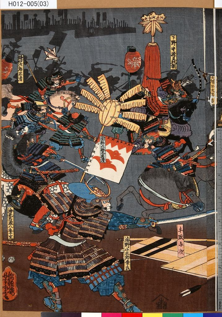 Former Hiraji battle warfare Yoshimasa Shirakawa night view. It features Minamoto no Yoshitomo. It is of the Tokyo Metropolitan Library by Yoshikawa Utagawa.